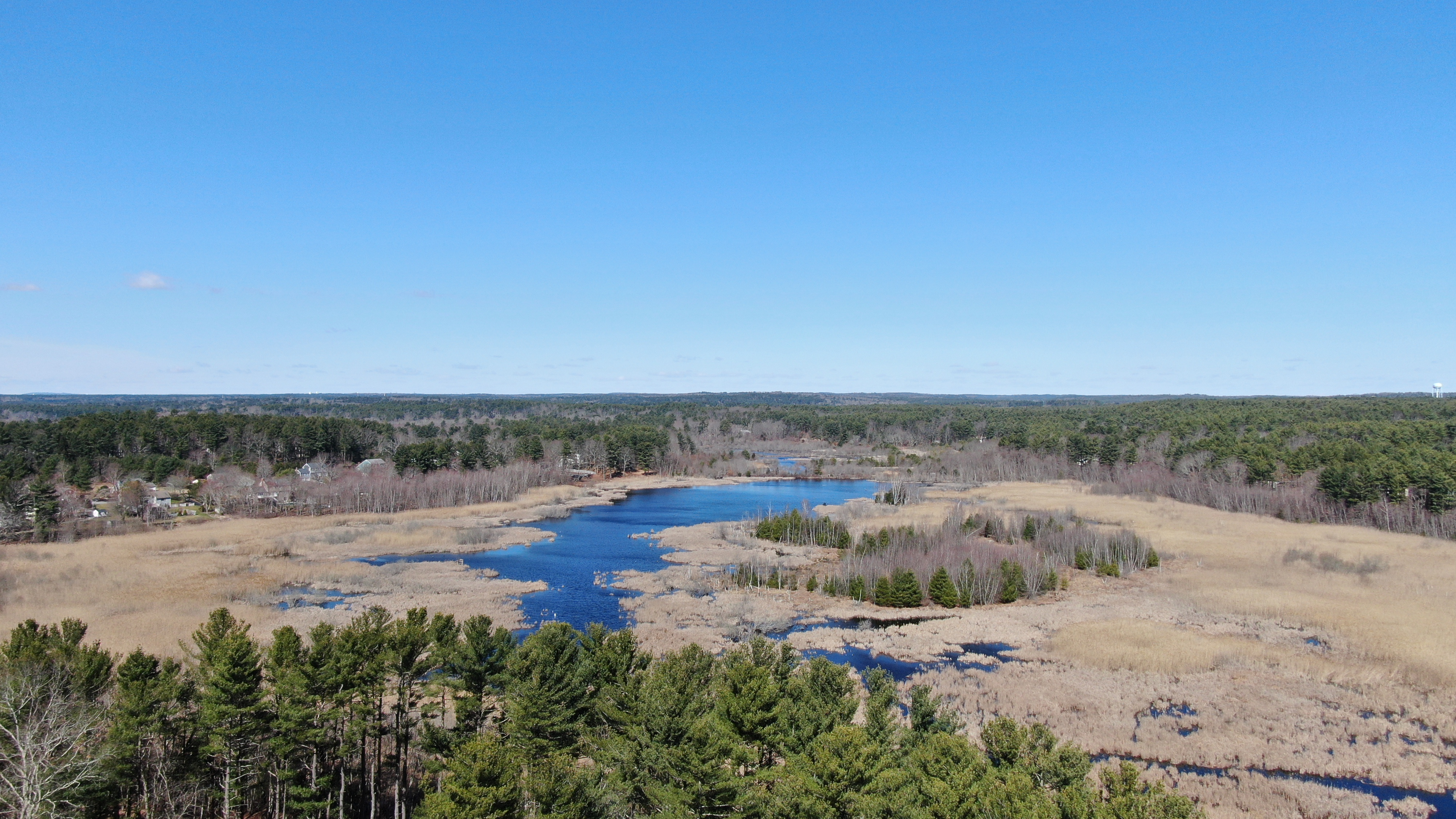 Photo shows the remaining water in Stump Pond.